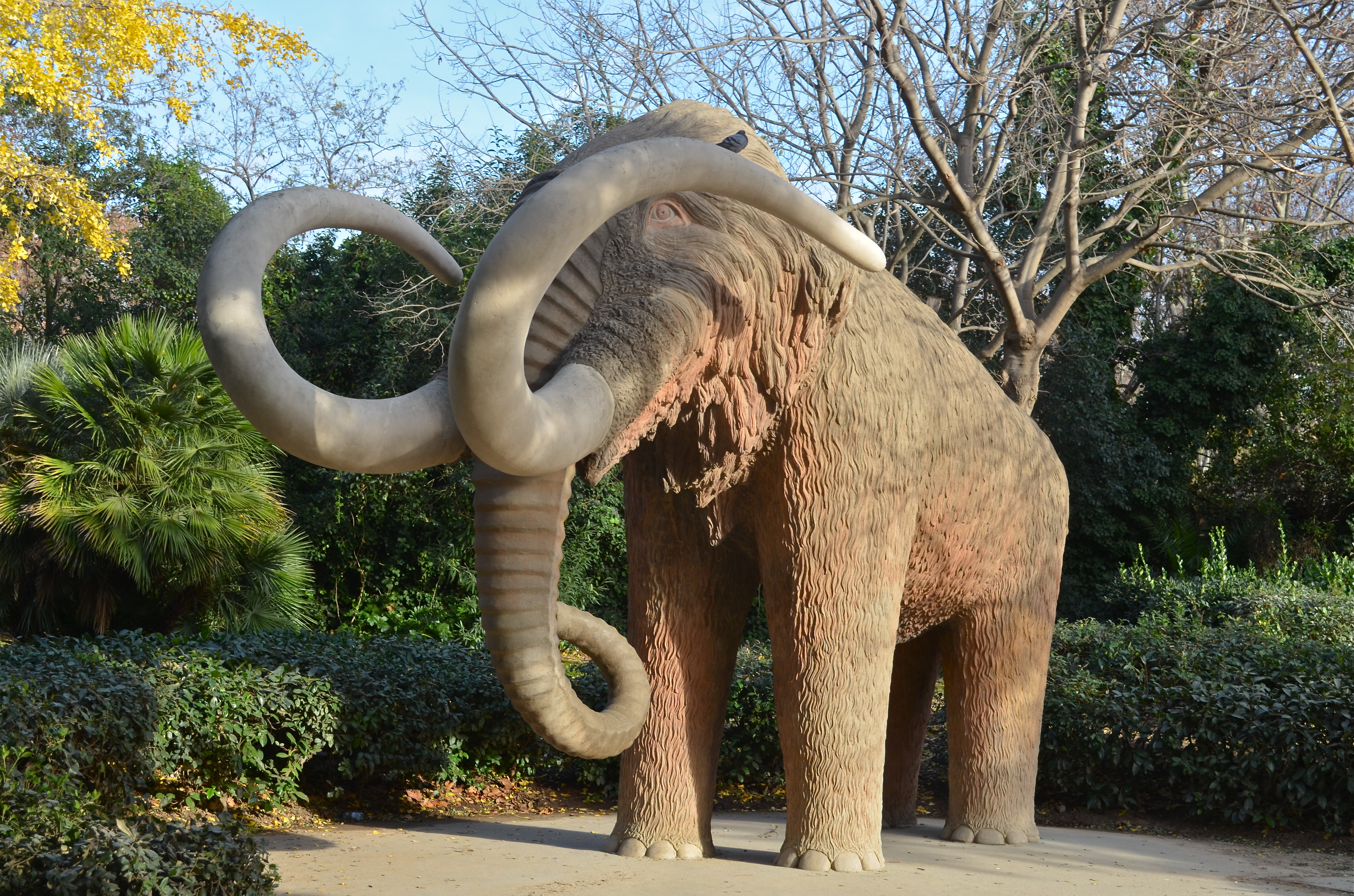 Mammoth sculpture by Enric Bassas at Parc de la Ciutadella - Barcelona